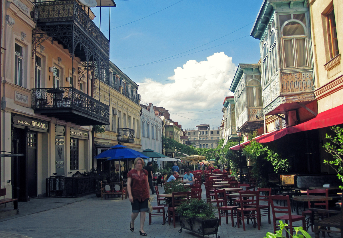 Cafes in downtown Tbilisi, Georgia